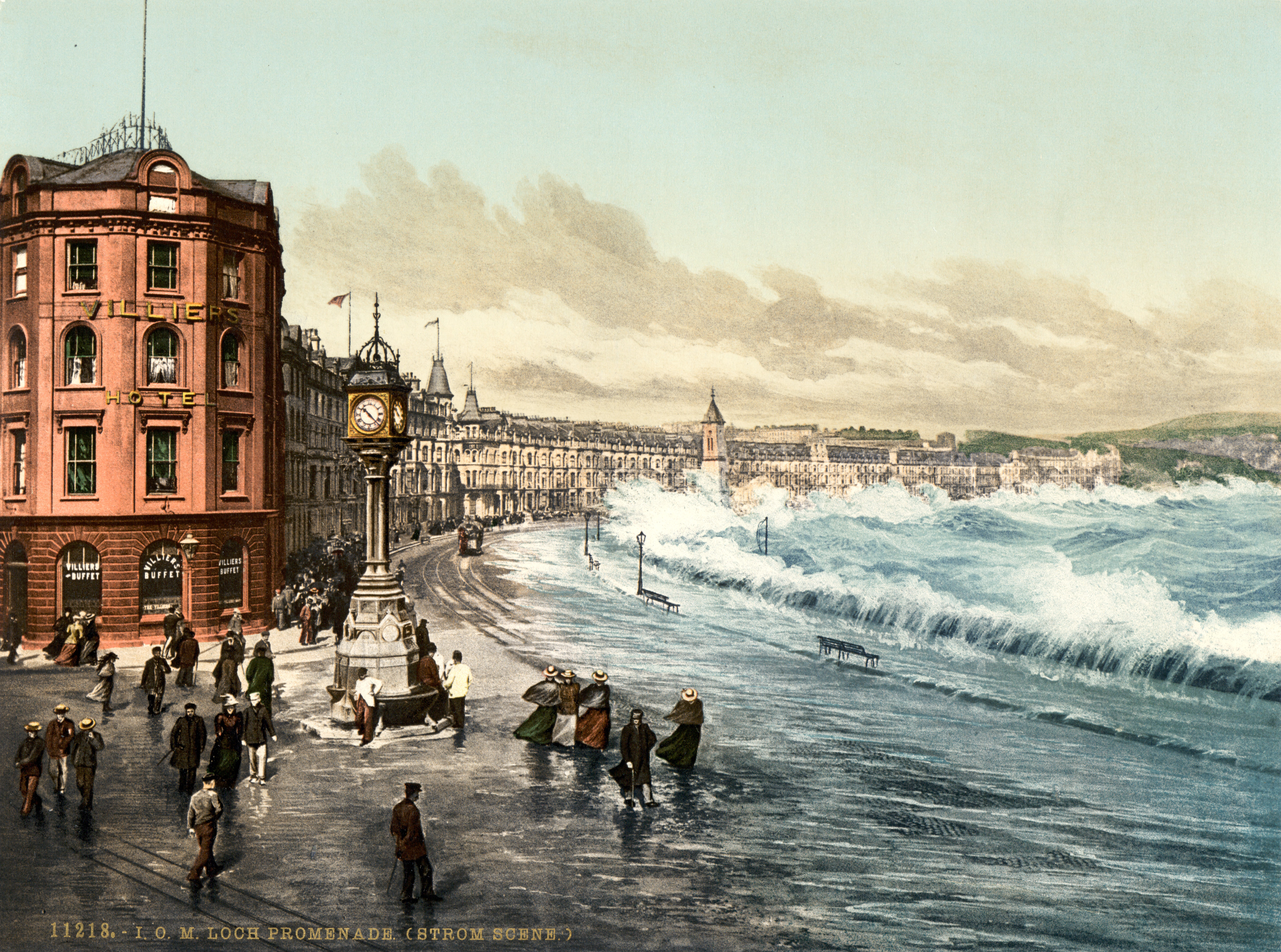 Loch Promenade, Douglas, Isle of Man. 1 photomechanical print : photochrom, color.